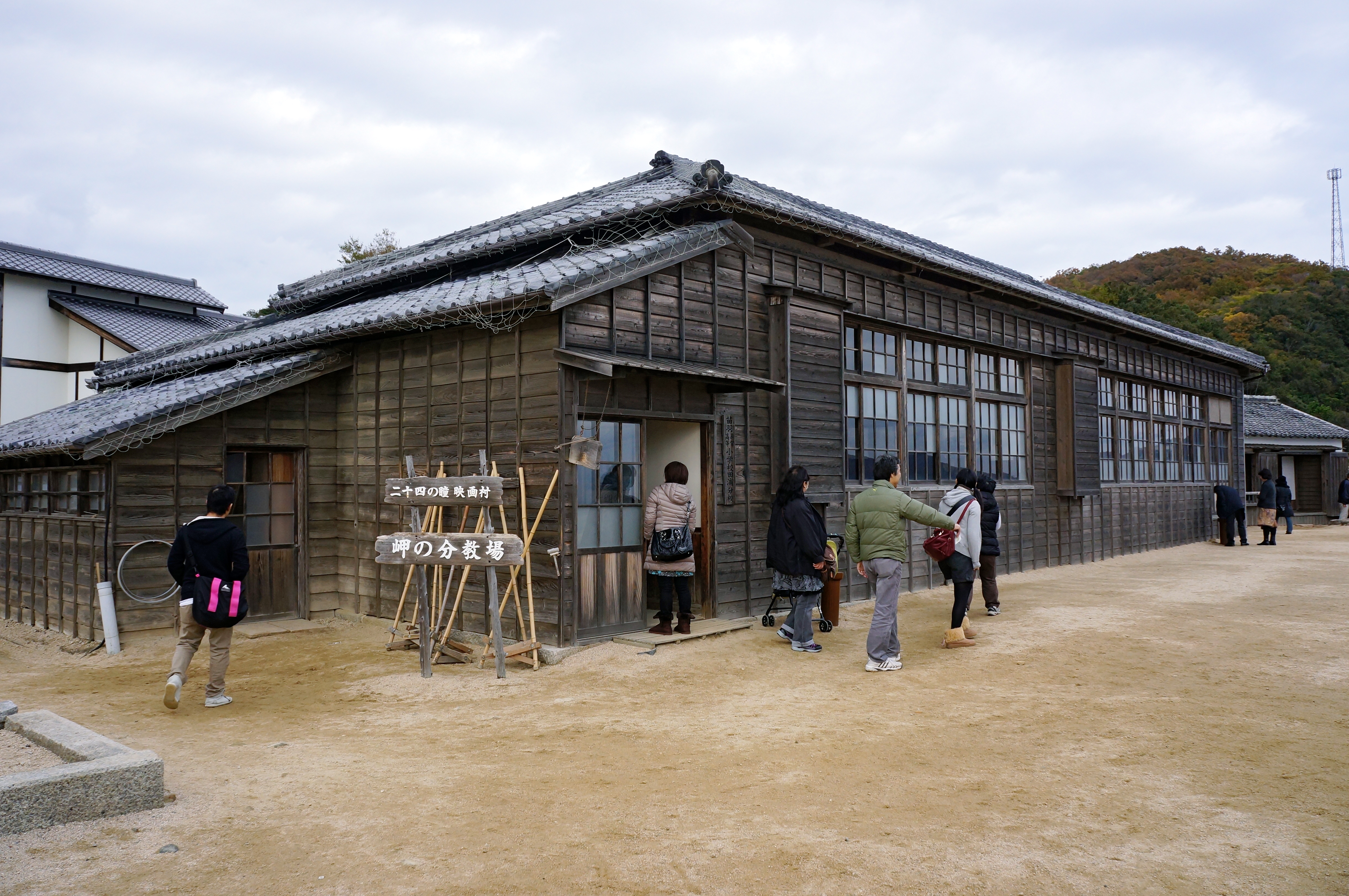 The amusement park of "Twenty-four eyes" in Shodoshima Island, Kagawa Prefecture, Japan)